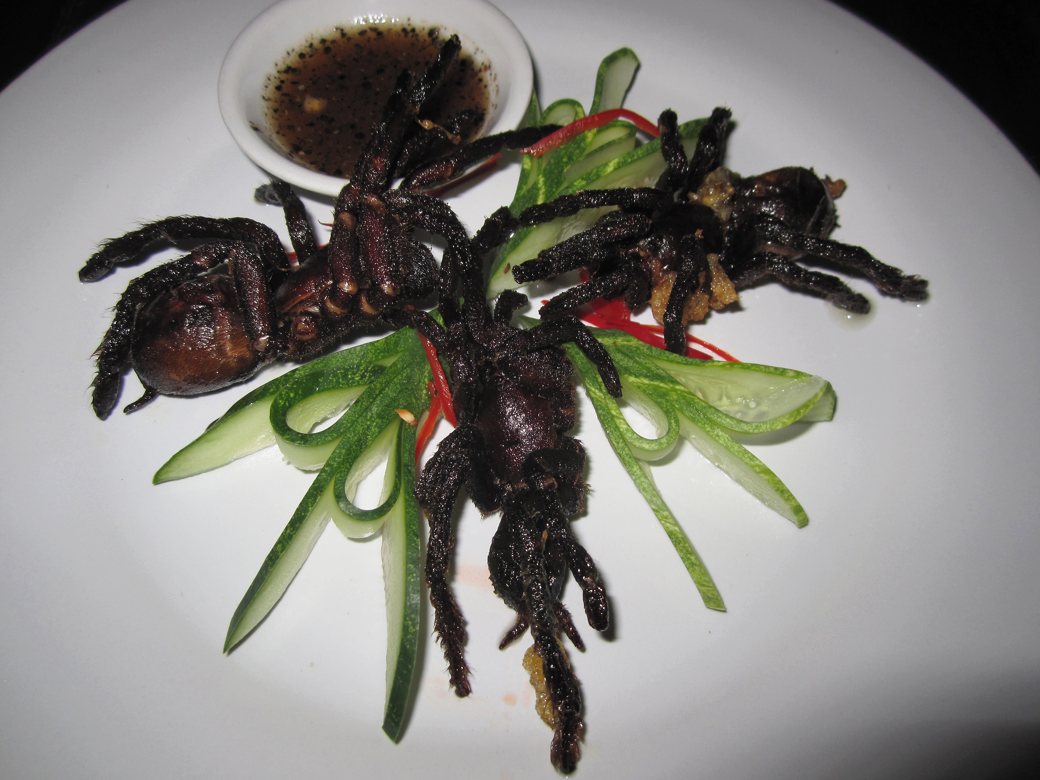 Tarantula appetizer in Phnom Penh, Cambodia.